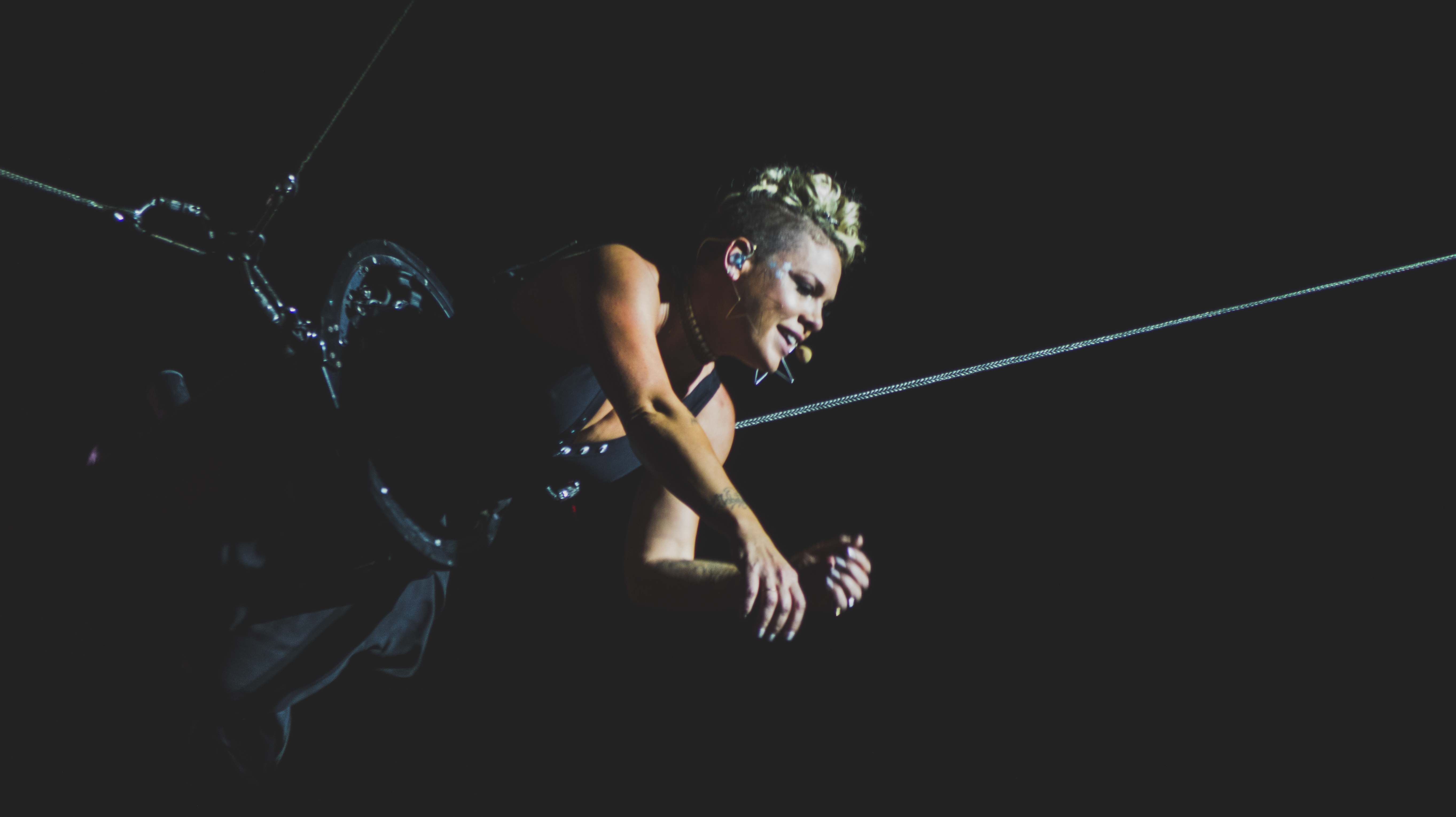 Performance of Pink at V Festival 2017.